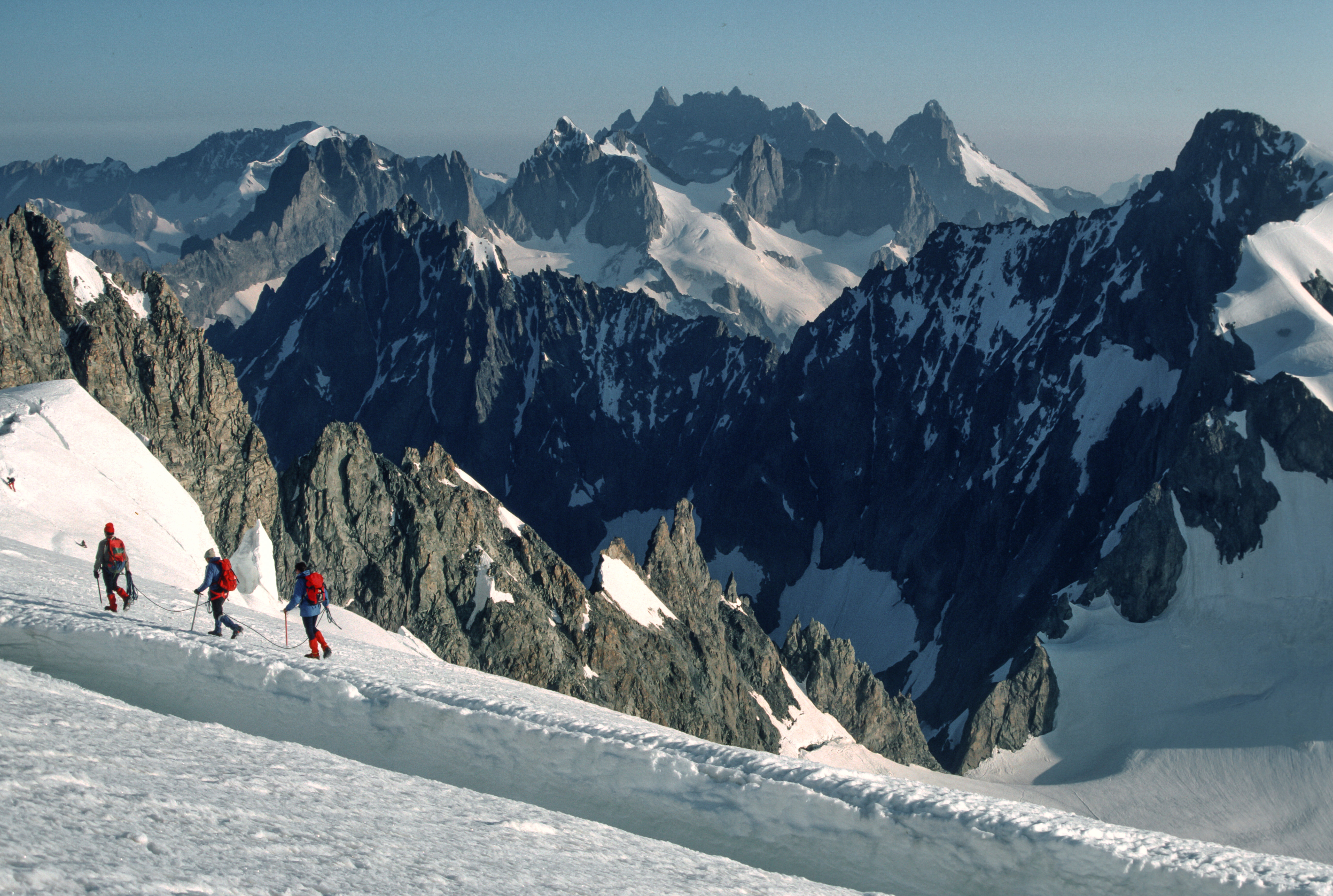 Ascent of the North face of the Barre des Ecrins, highest summit of the massif (4103 m ). View towards the Meije.